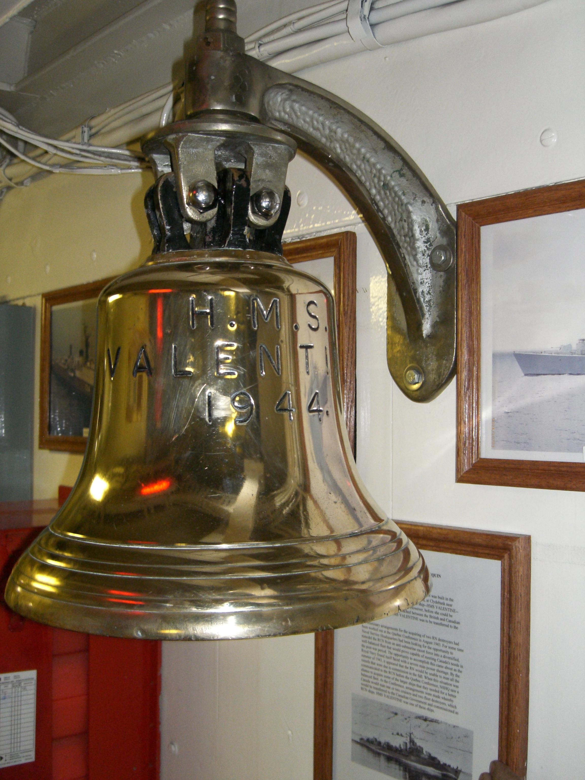 Ships Bell of HMS Valentine aboard HMCS Algonquin